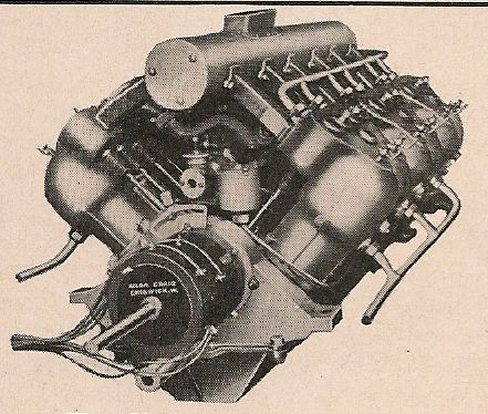 The 150 bhp V-12 Dörwald marine motor, 1904